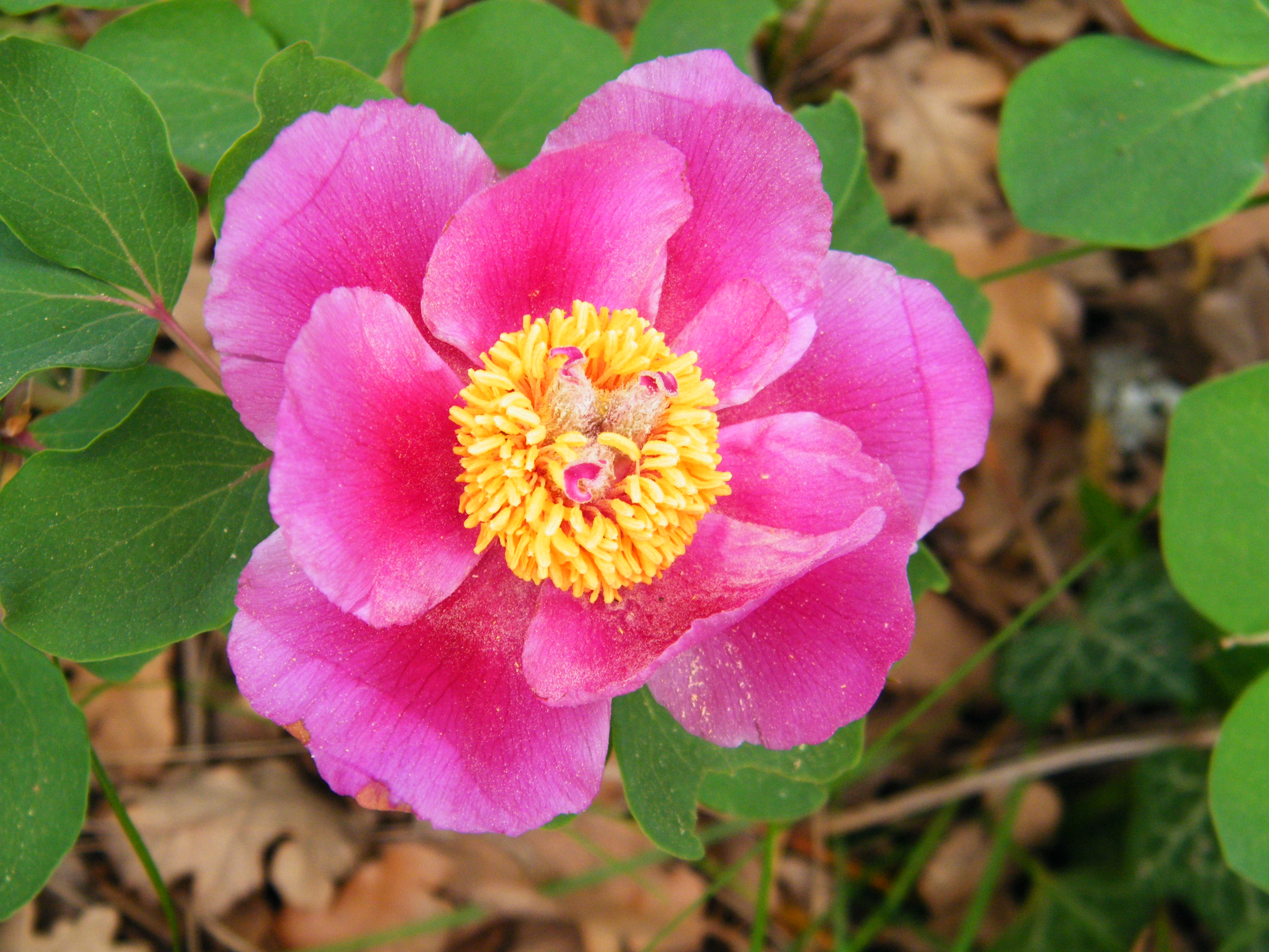 Paeonia daurica in Laspi Bay